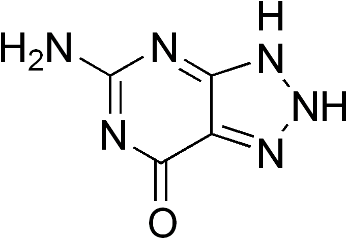 chemical structure of 8-azoguanine